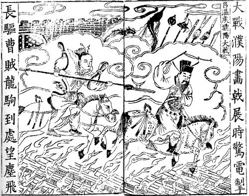 A Qing Dynasty illustration showing a victory over Cao Cao for Lu Bu and his army.